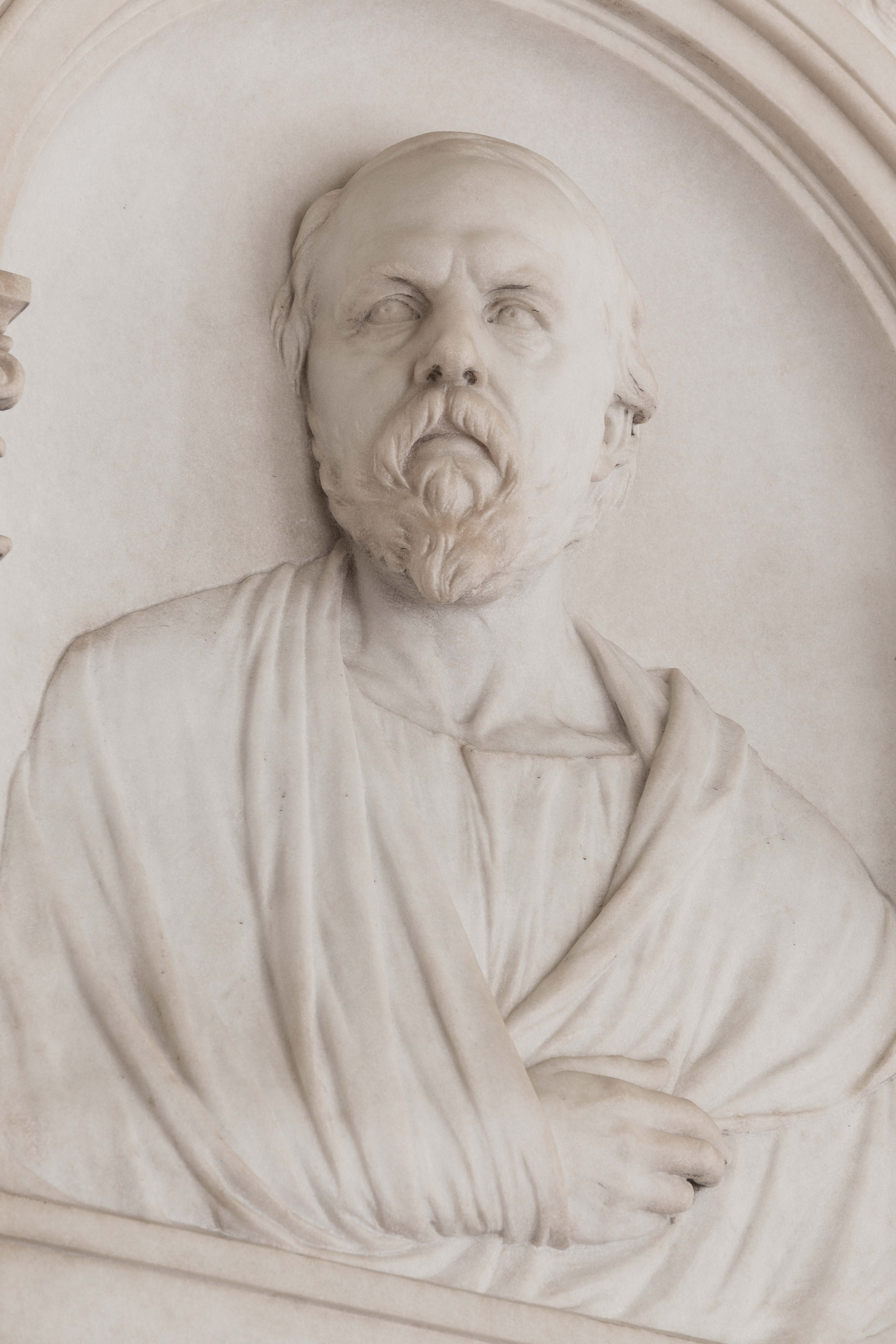 Gustav Demelius, portrait relief (white marble) in the Arkadenhof of the University of Vienna, (Maisel# 5 ). Artist: Wilhelm Seib (1854-1923), unveiled 1897